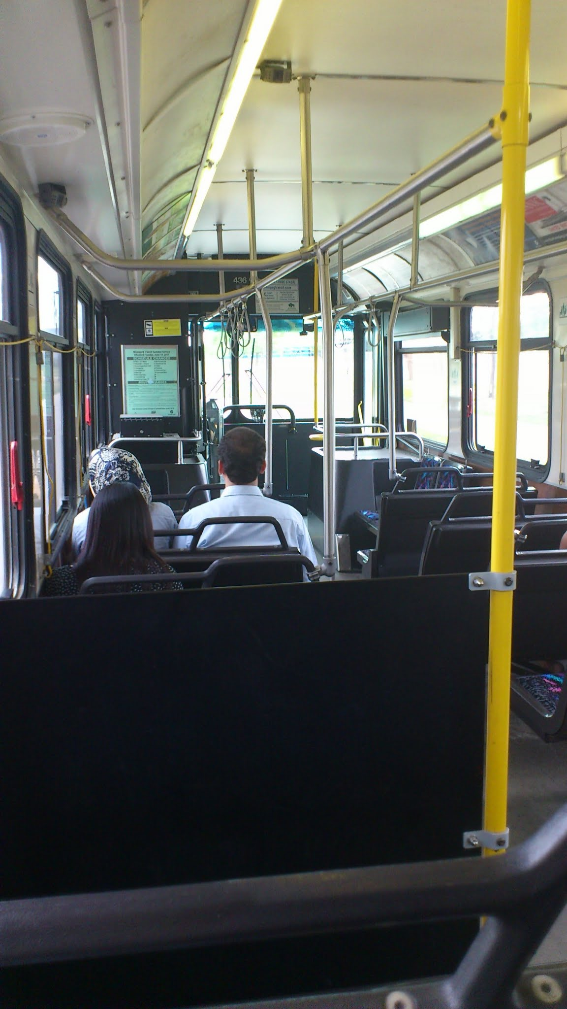 This is the interior of an typical Winnipeg bus